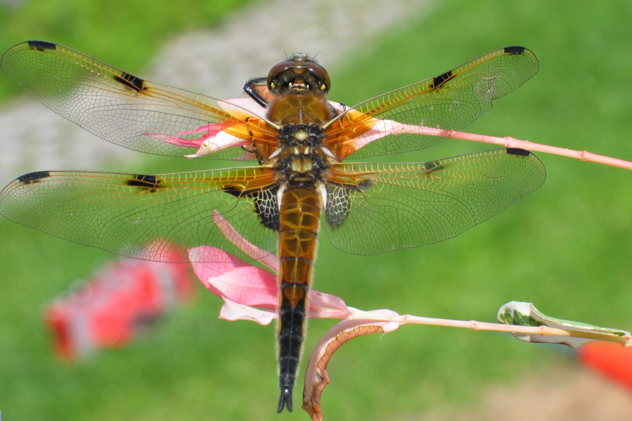 Four-spotted Chaser